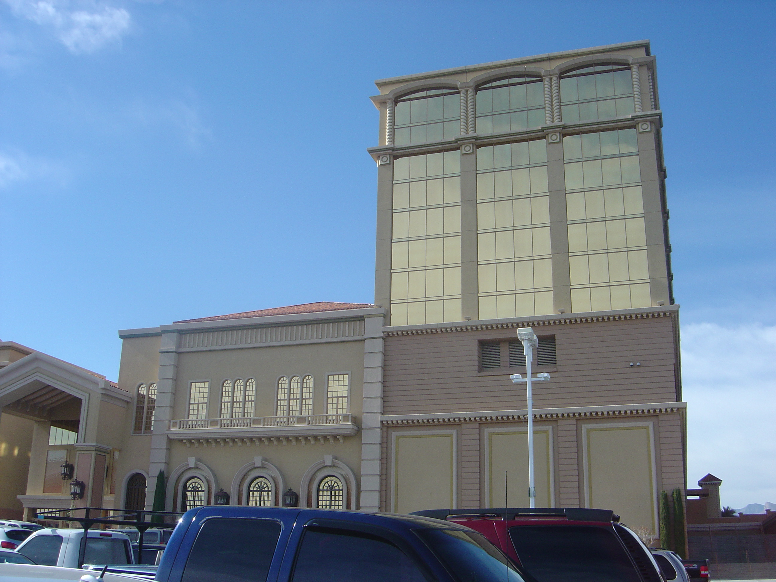 Hotel tower of the Suncoast hotel-casino in Summerlin, seen from the east parking lot.